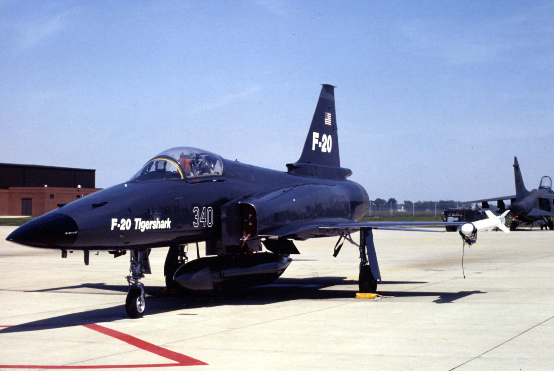 Northrop F-20 with Agressor paint scheme. (U.S. Air Force photo)